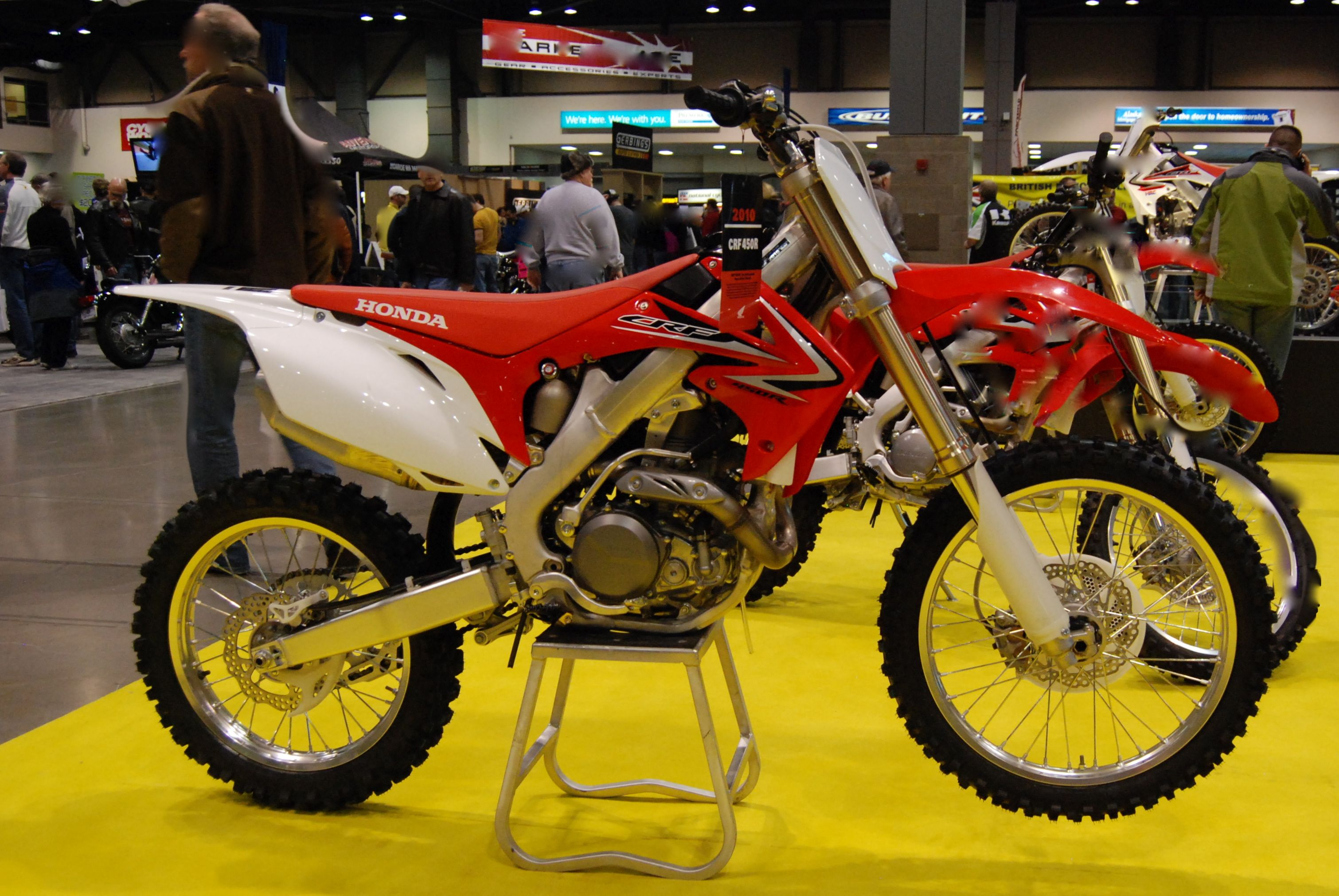 2010 Honda CRF450R at the 2009 Seattle International Motorcycle Show